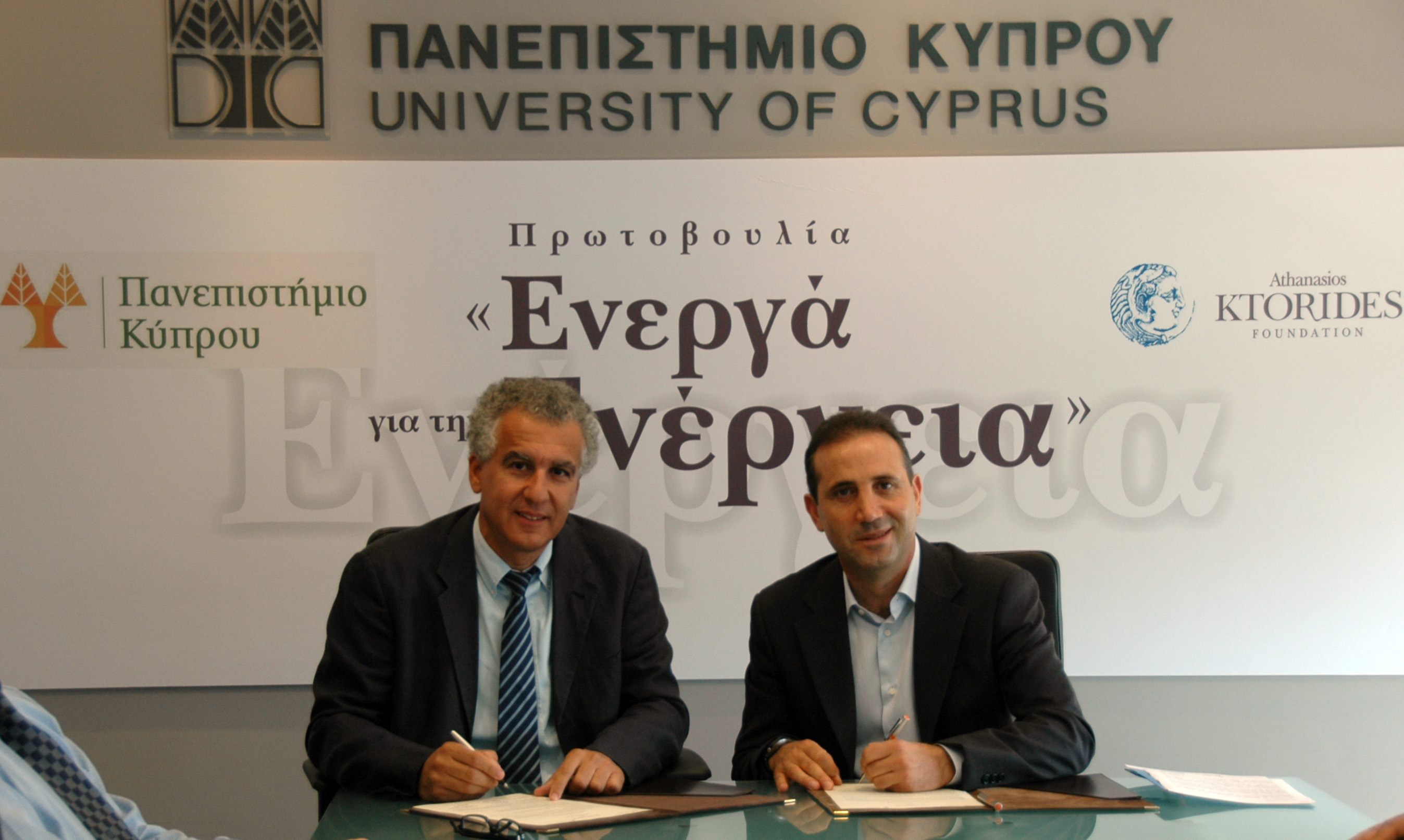 The Rector of the University of Cyprus, Professor Constantinos Christofides (left) and the President of Athanasios Ktorides Foundation Mr. Nasos Ktorides. They signing cooperation agreement.